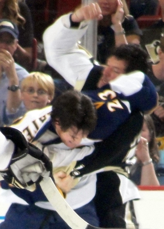 Bill Guerin of the Pittsburgh Penguins pounds on Atlanta Thrashers F Jim Slater during a April 3, 2010 game at Mellon Arena in Pittsburgh, PA.